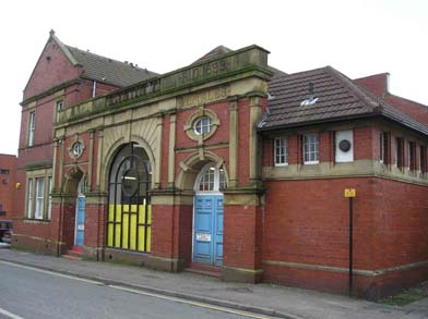 Crompton Swimming Pool, in Shaw and Crompton, Greater Manchester, England